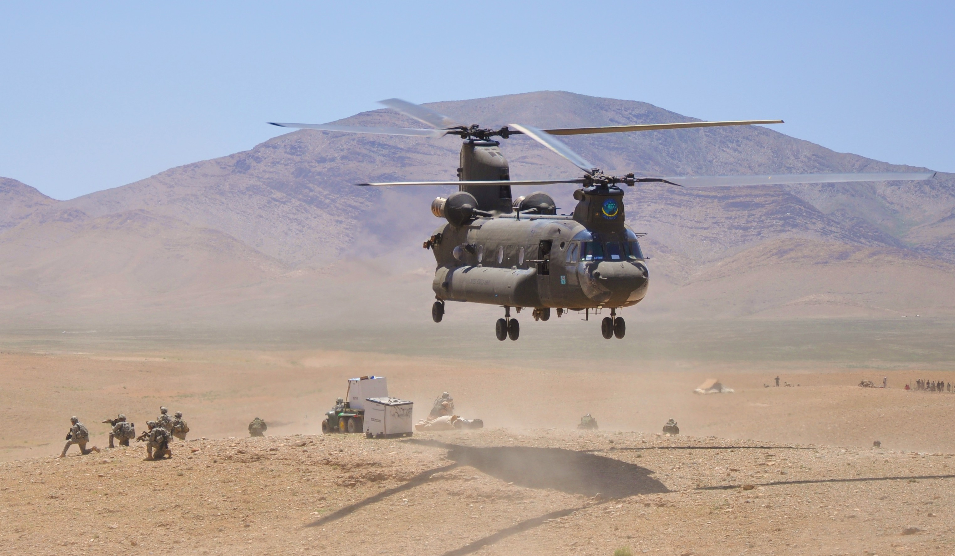 Members of TF Brawler and the ANA provide security after being dropped off for a CERP mission in the Logar Province of RC East. TF Brawler excelled in missions both in the air and on the ground.